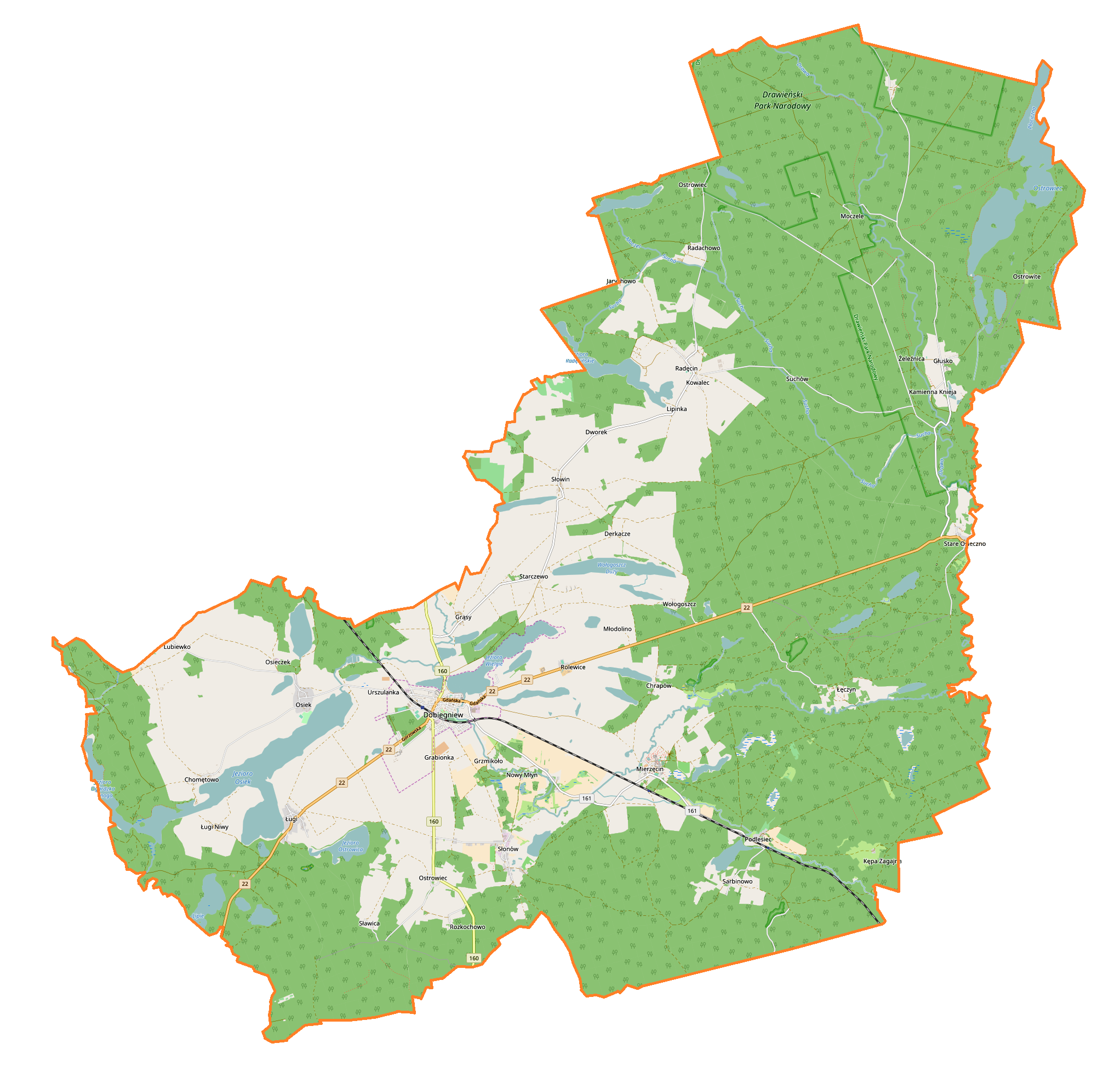 Location map